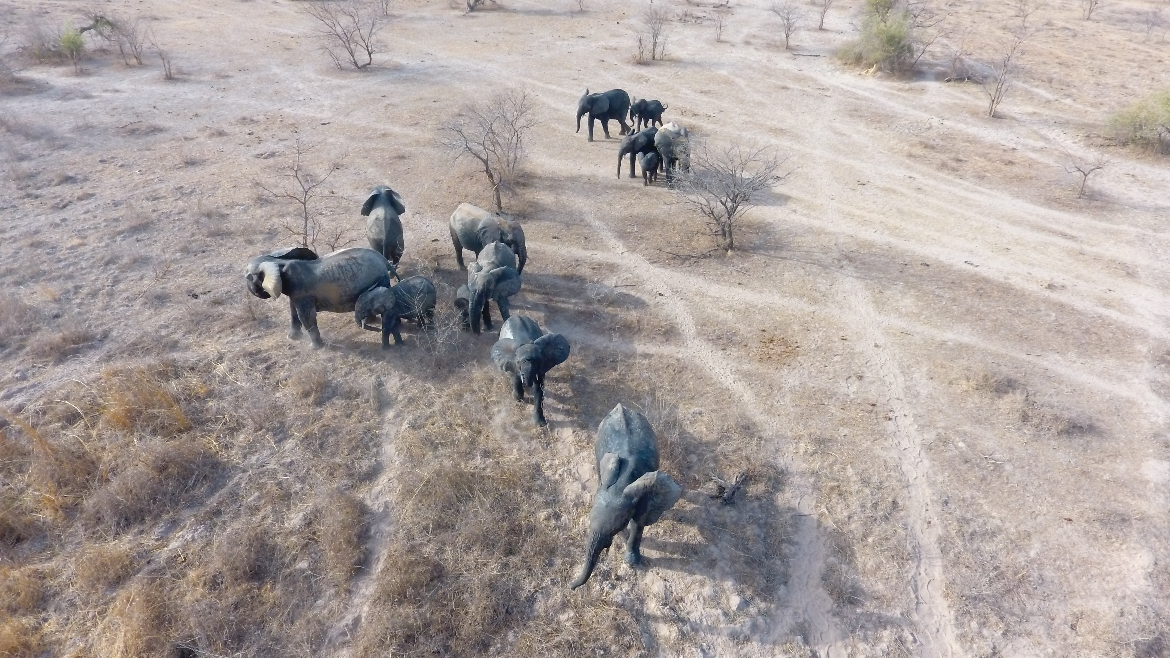 A herd of elephants photographed with a drone at the Bali pond of the Pendjari park republic of Benin